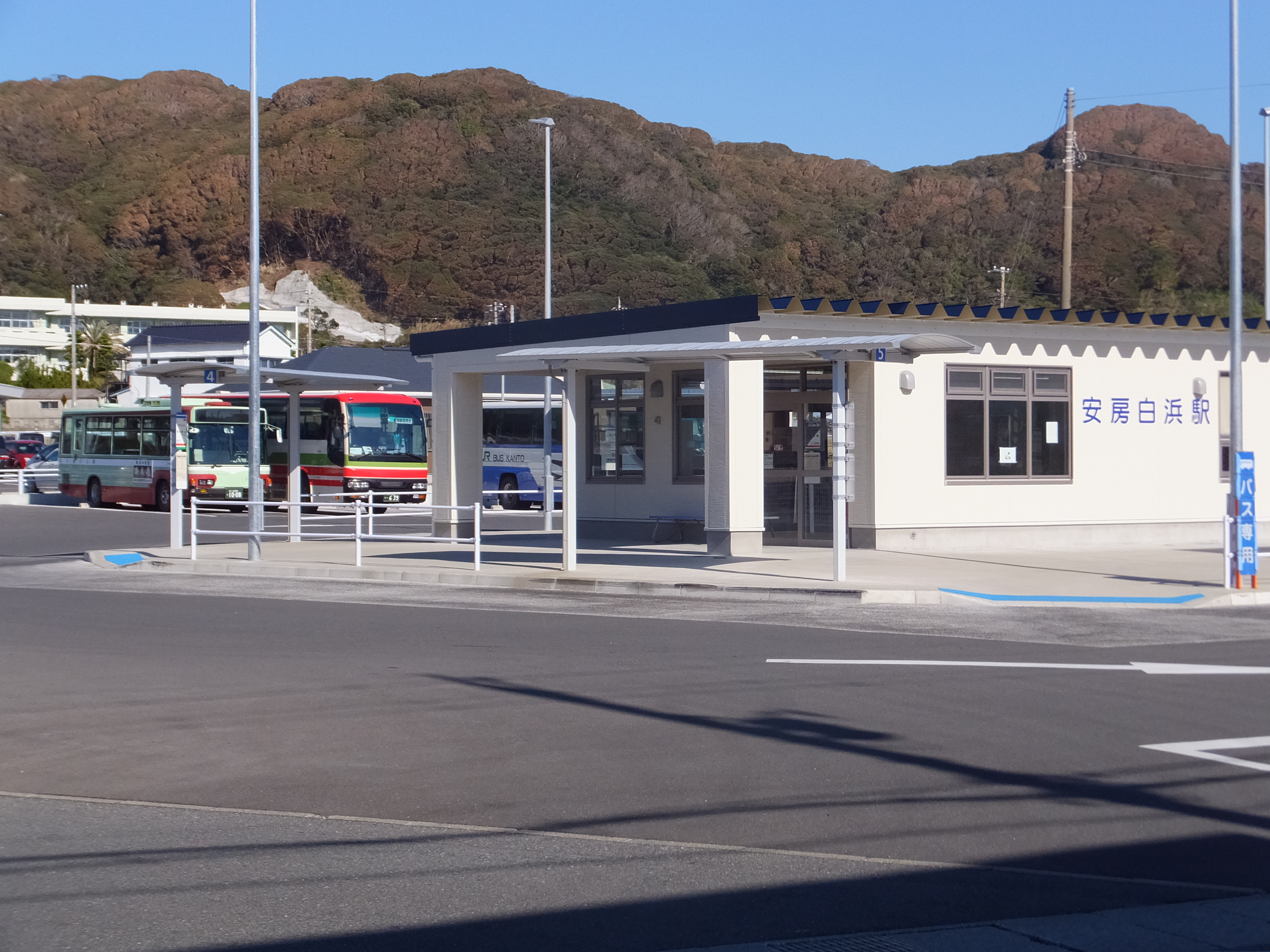 Awa Shirahama Station; a bus terminus located in Chiba, Japan